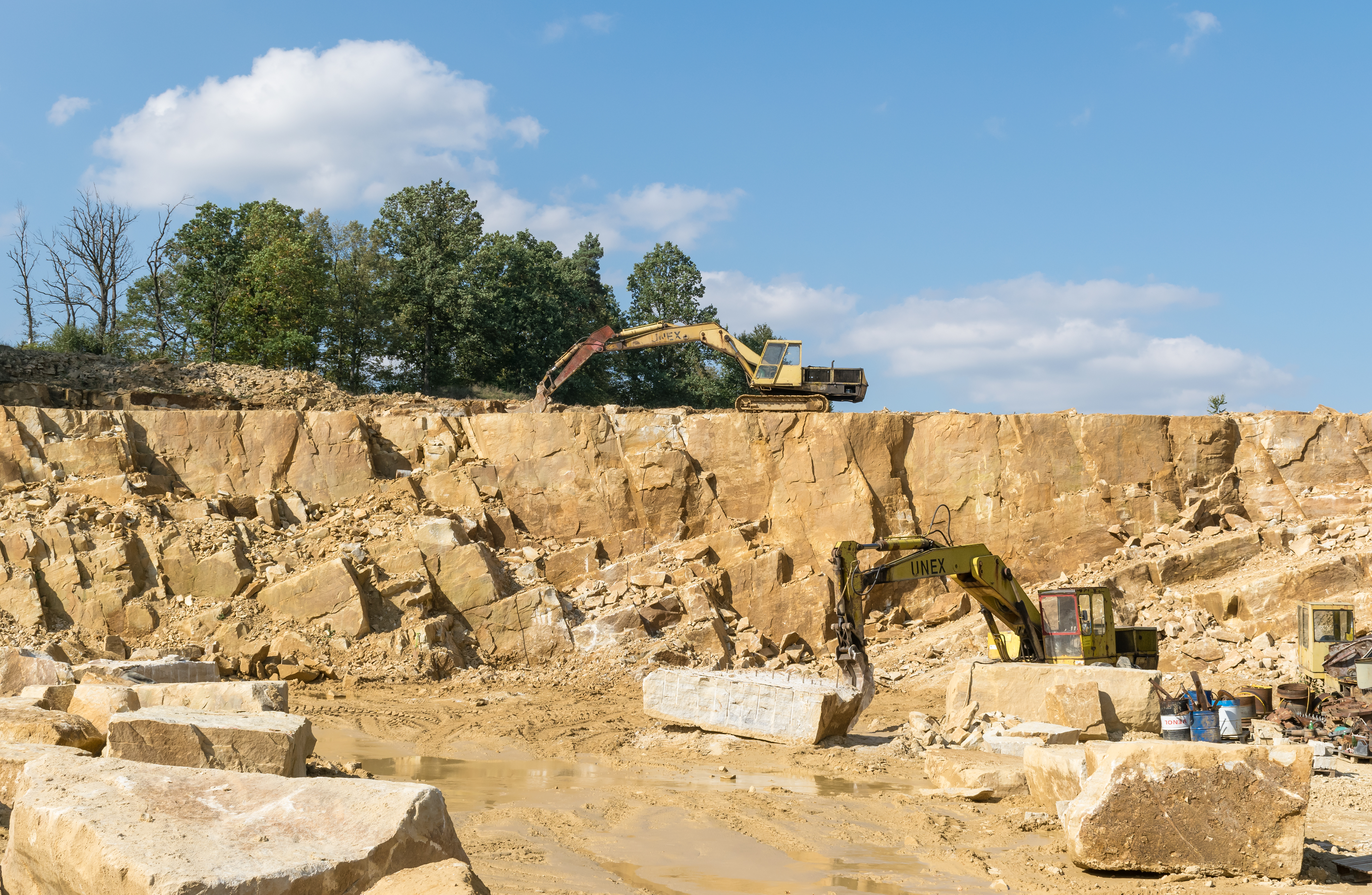 Sandstone quarry in Długopole Górne